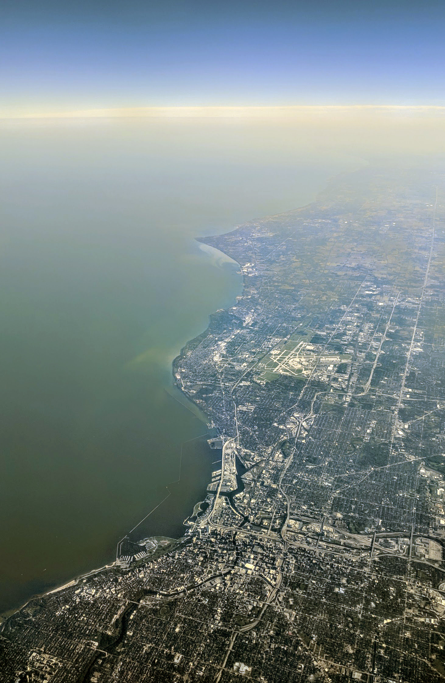 Aerial view from the north of Milwaukee, Wisconsin, on Lake Michigan. The Menomonee River, Kinnickinnic River, and Milwaukee River are visible in the foreground; Wine Point in the background.